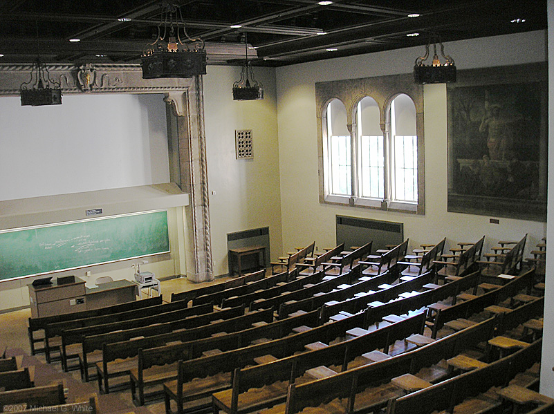 Room 324 in the Cathedral of Learning at the University of Pittsburgh. Known as the Frick Auditorium, the room seats 166 and features a Nicholas Lochoff reproduction of The Resurrection by Piero della Francesca. photo by Michael G White